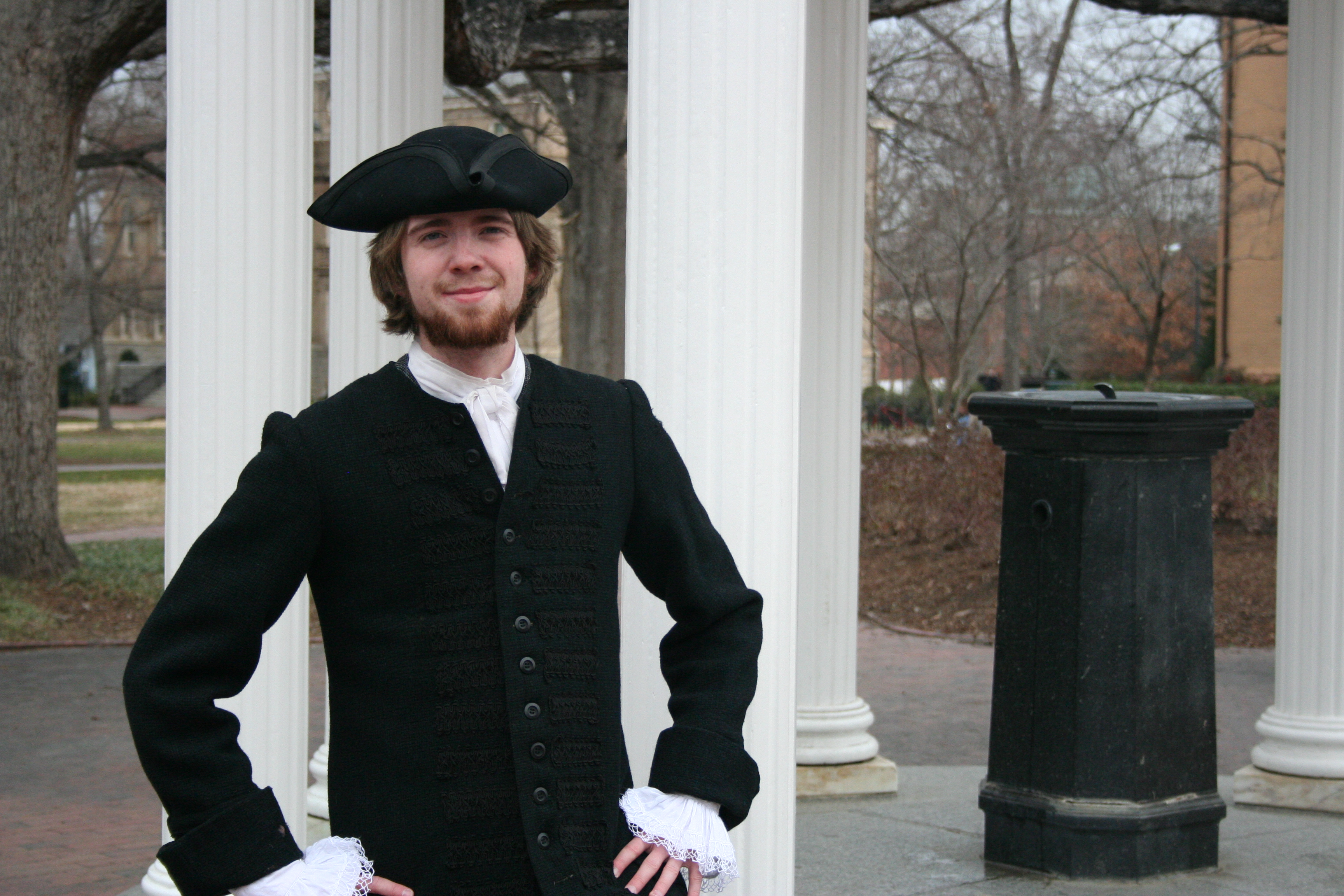 Student as Hinton James Removed from the following pages: Hinton James --OrphanBot (talk) 08:12, 17 February 2008 (UTC)